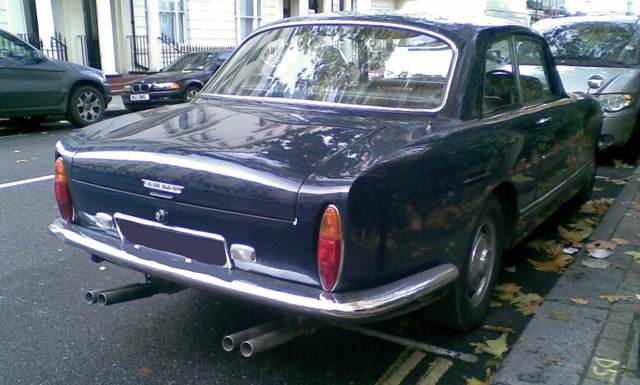 Bristol 411